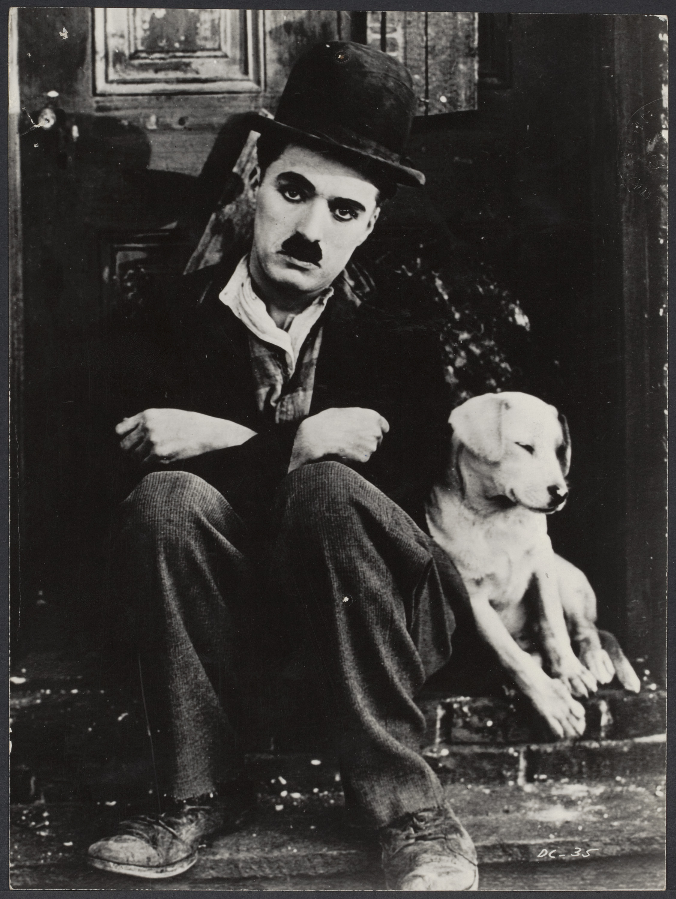 Film still "La Revue de Charlot" Repro: United Artists (US)